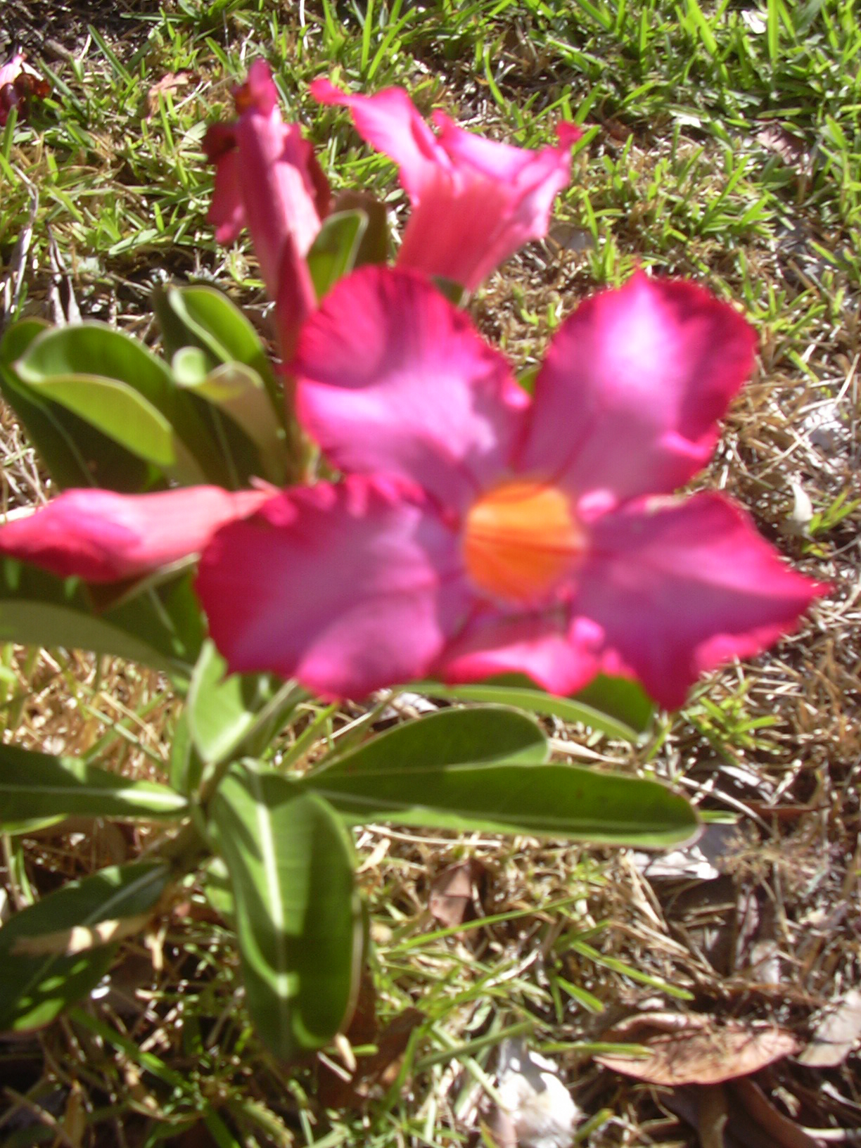 Adenium obesum (flower). Location: Maui, MCC Kahului